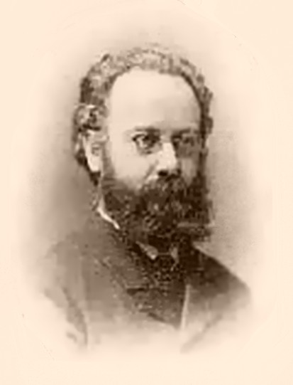 Gûnther Wagner (circa 1878) - German chemist, registered the hallmark of Pelikan Holding AG.